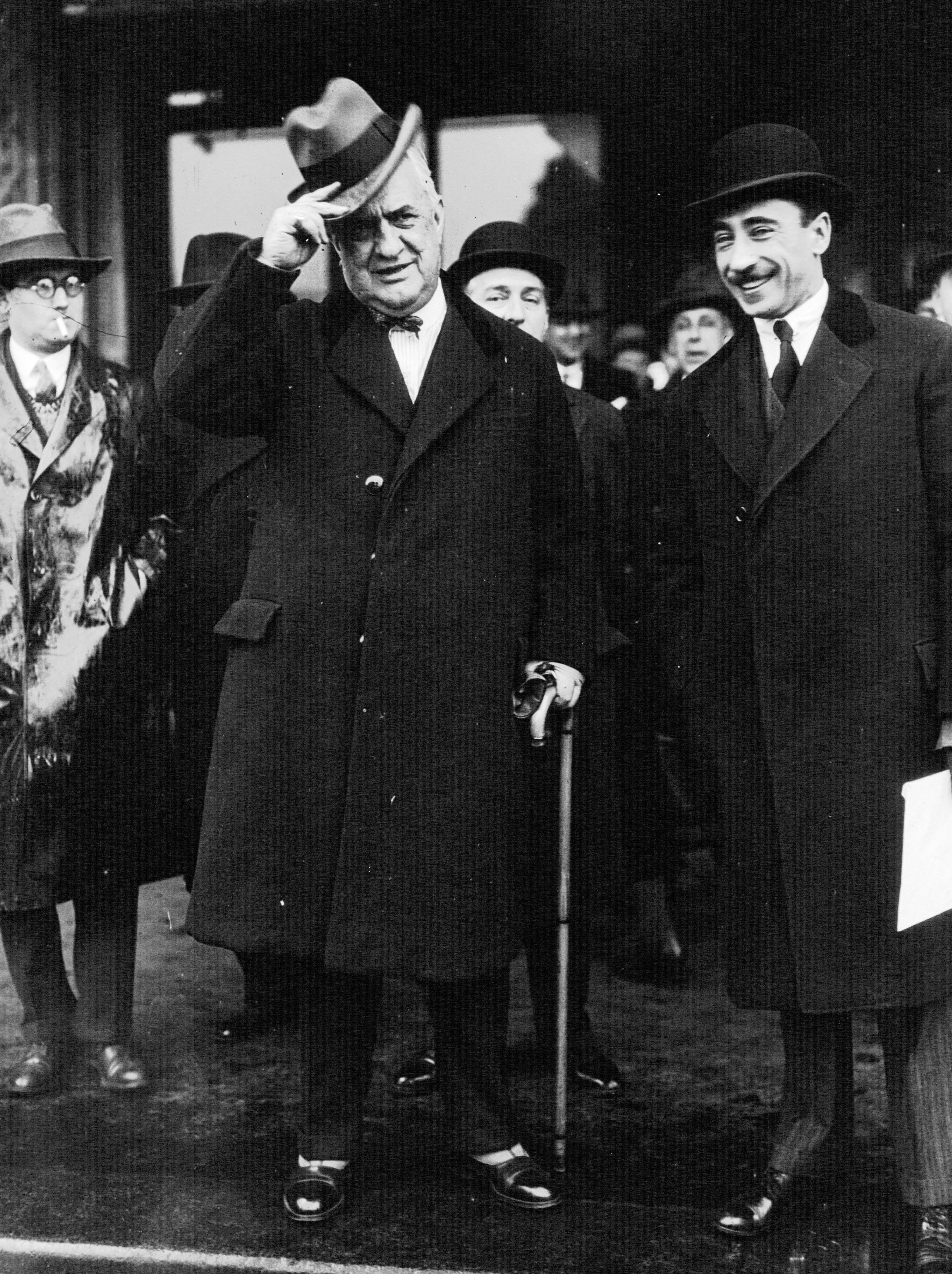 Constantin Argetoianu (Argetoiano), Romania's Finance Minister.